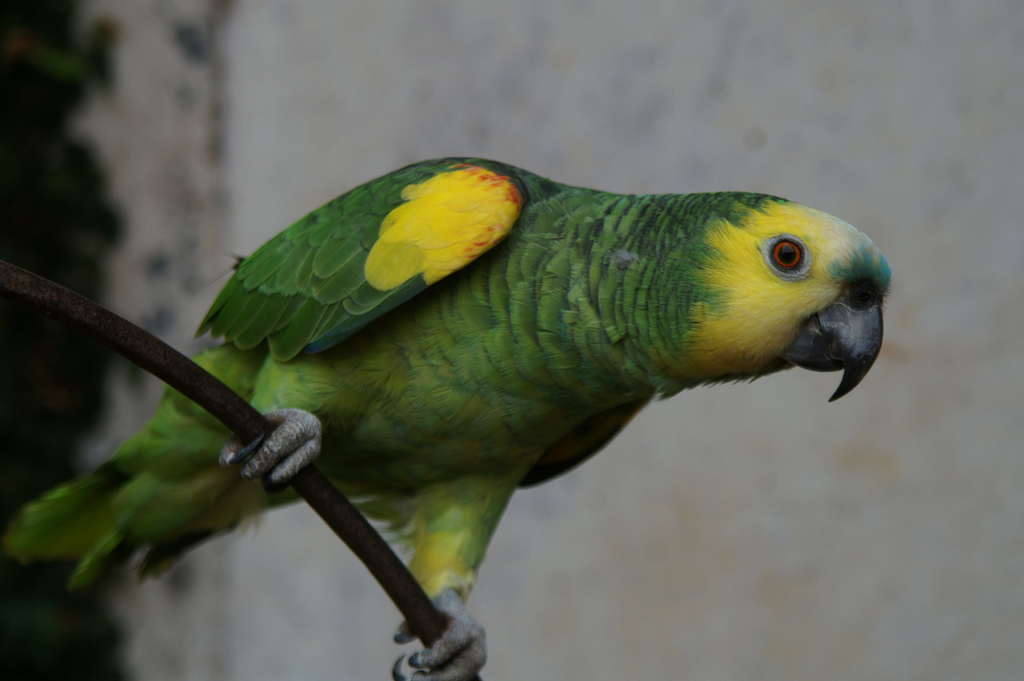 A pet Blue-fronted Amazon in Bolivia. It has been wing clipped.